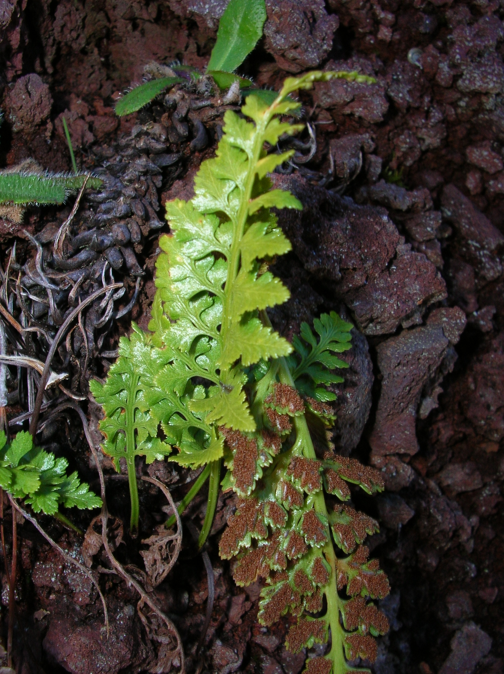 Asplenium adiantum-nigrum (habit). Location: Maui, Puu Nianiau